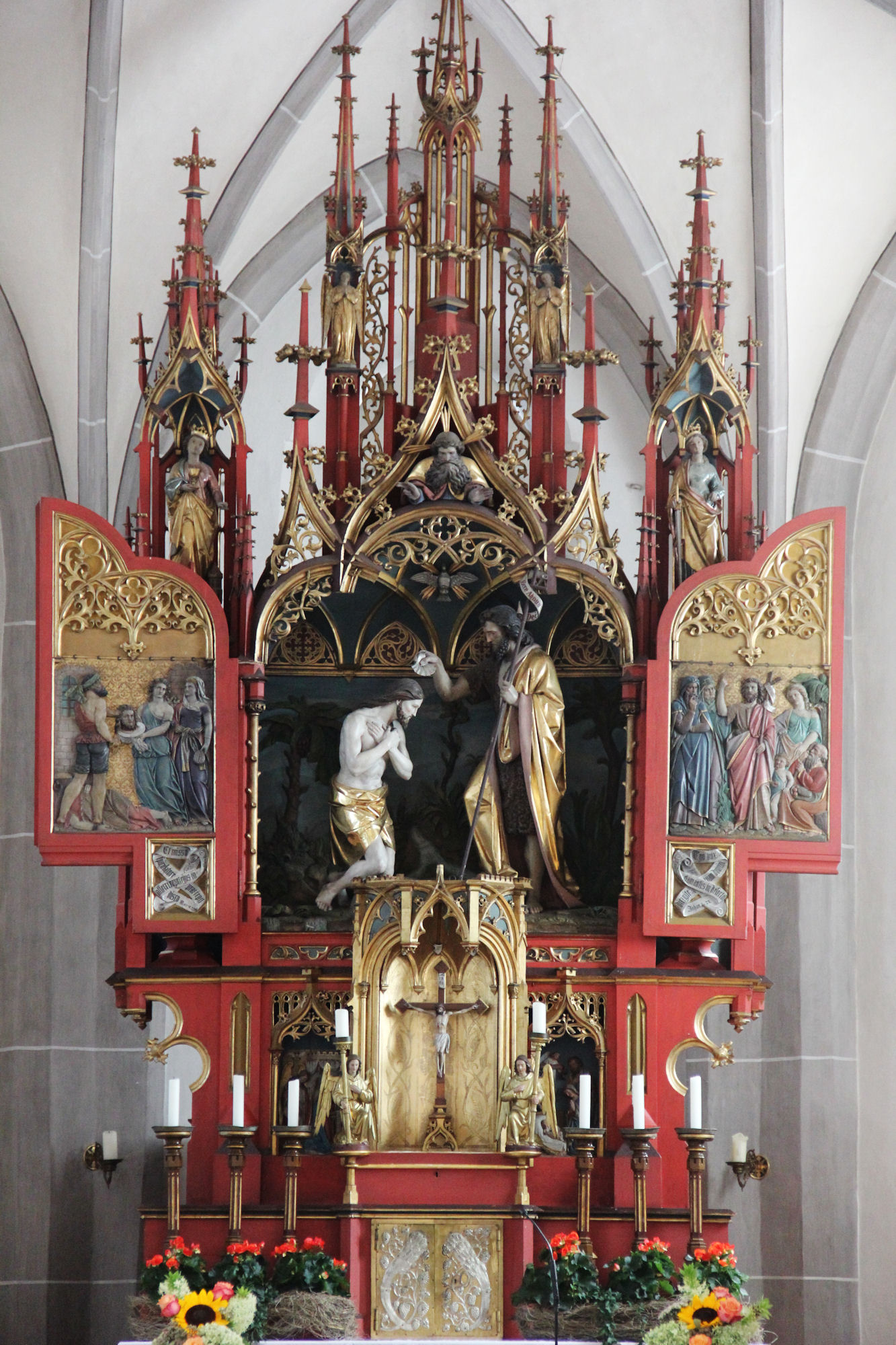 Church of St. John the Baptist Native nameSt. Johannes BaptistLocationZolling, Upper Bavaria, GermanyCoordinates48° 26′ 59.28″ N, 11° 46′ 15.24″ E Authority control : Q2319336 institution QS:P195,Q2319336